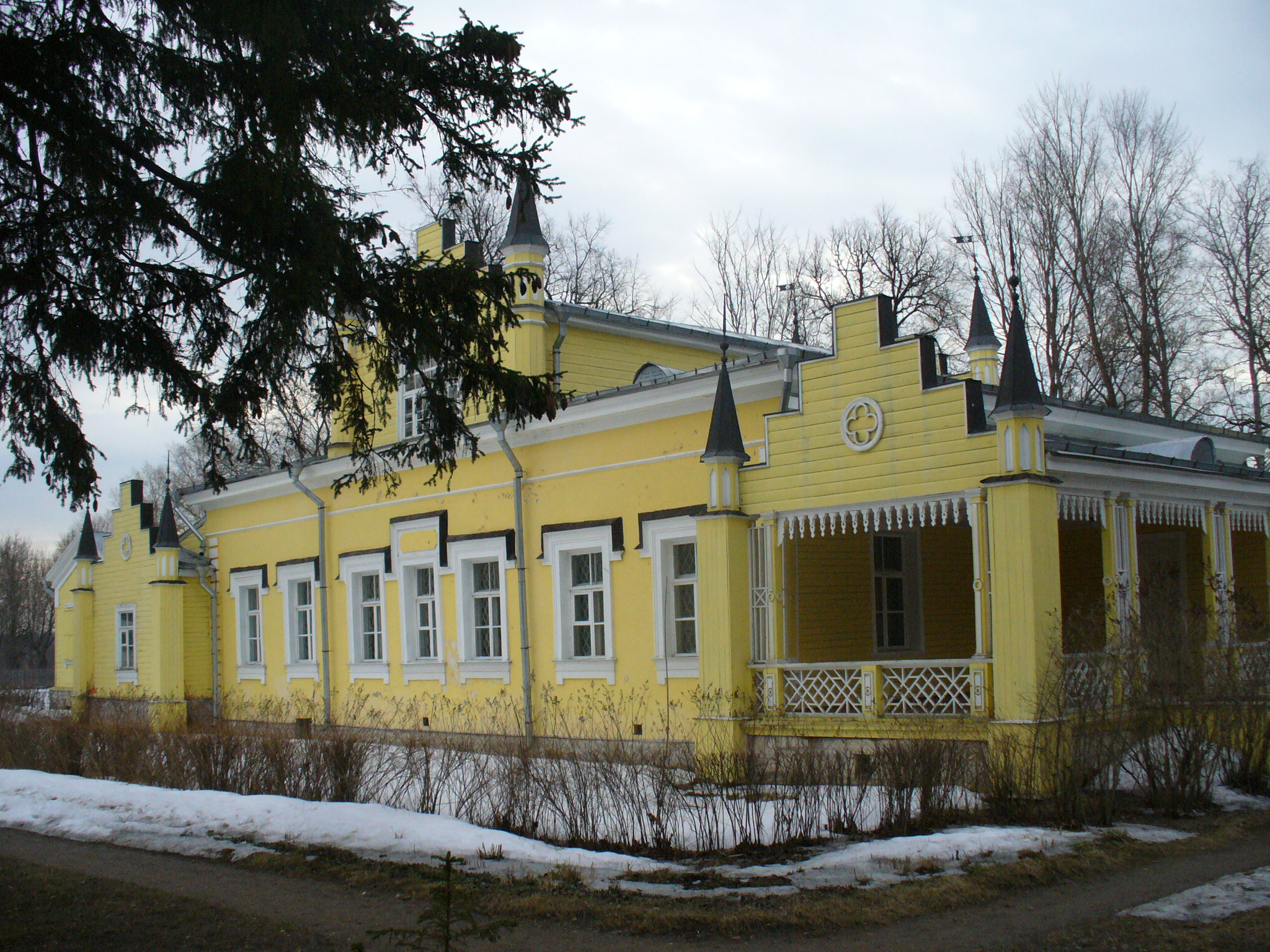 Roerich's house, Izvara, Leningrad oblast, Russia